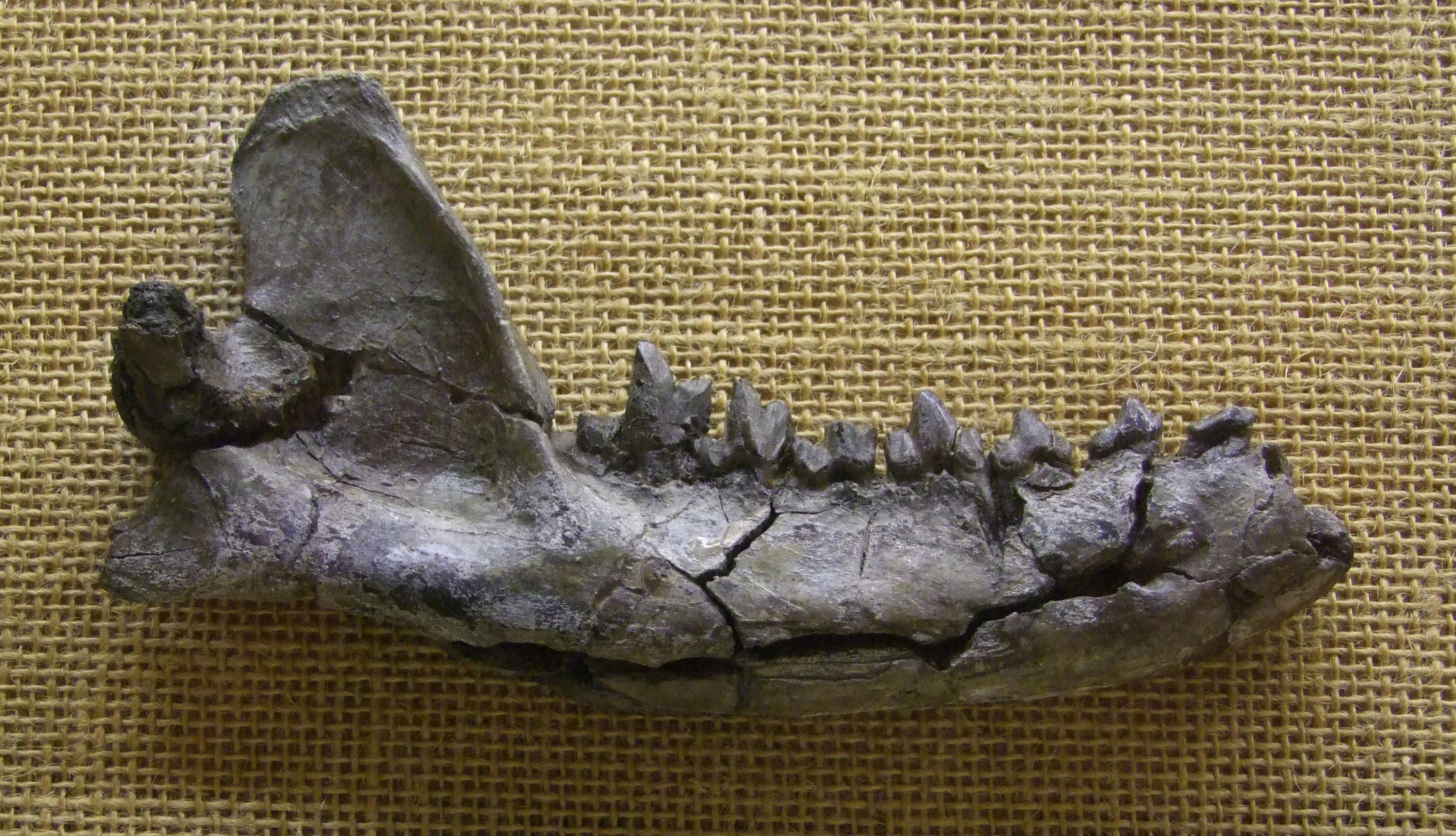 dentary of Prodissopsalis from the Eocene of the Geiseltal, Germany; took the picture in the Geiseltalmuseum, Halle (Saxony-Anhalt)